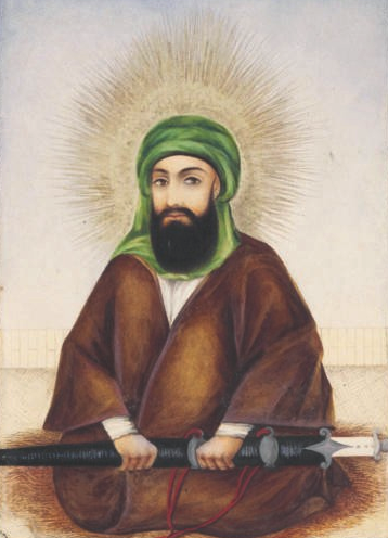 The Imam 'ali Qajar Iran, 19th Century